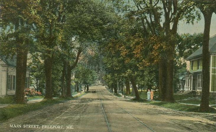 Main Street, Freeport, Maine